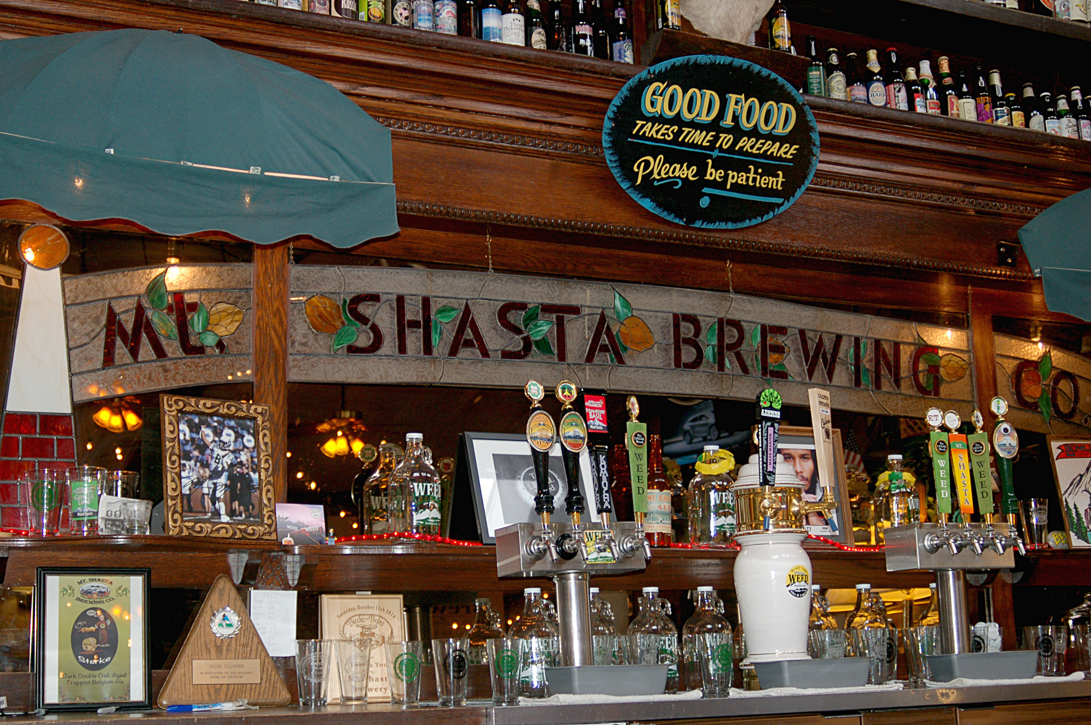 Mt. Shasta Brewing Company is a brewery in Weed, California. The company markets some brands as Weed Ales & Lagers. Owners Vaune and Barbara Dillmann began commercial production in 2003. Mount Shasta Brewing Company is licensed to distribute its beers in the states of California, Oregon, and Washington. The brewery has won awards for its beers, for local community involvement and for its marketing success with the slogan "Try Legal Weed".